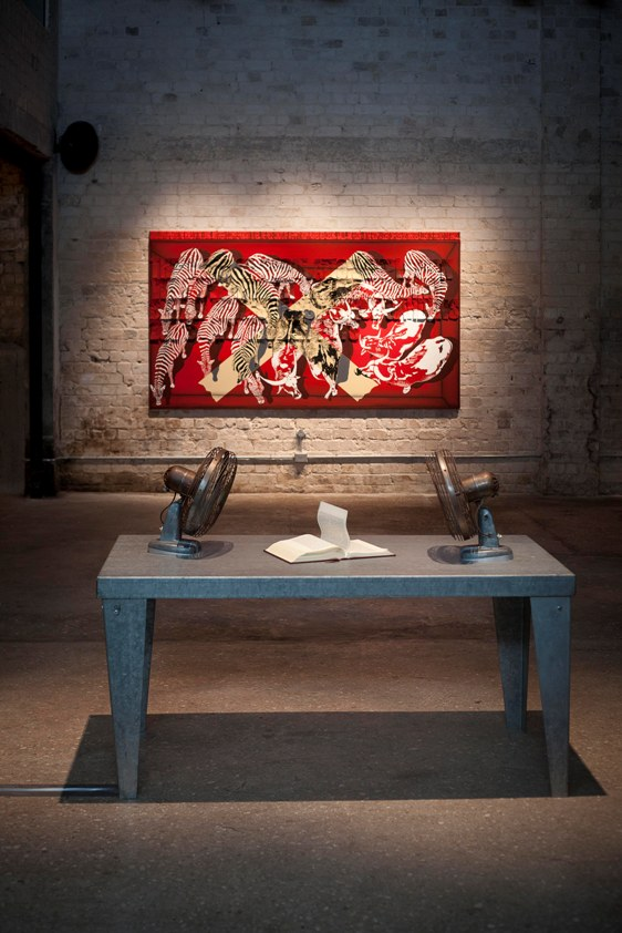 r.f c